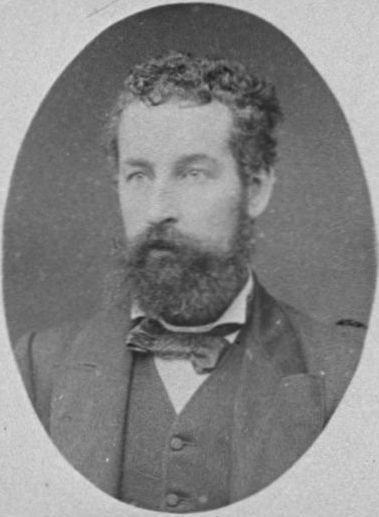 Portrait taken from montage depicting members of the 1882 House of Representatives.